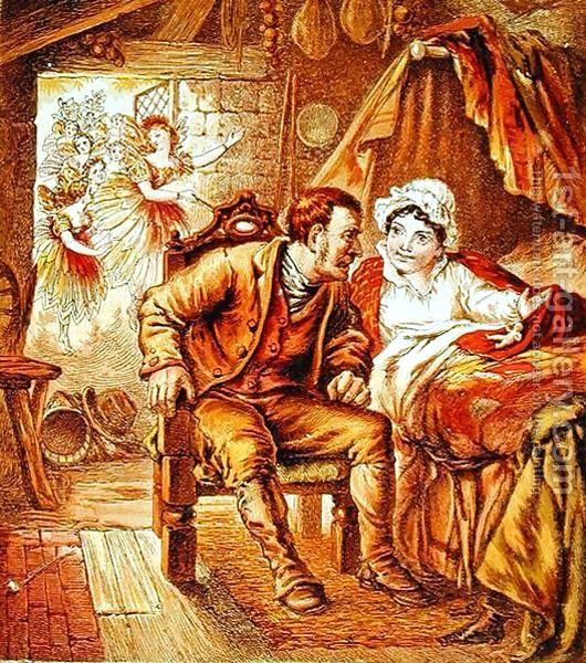 The Birth of Tom Thumb, illustration from Our Nurses Picture Book, engraved by Kronheim and Co., 1869, a painting by Horace Petherick.